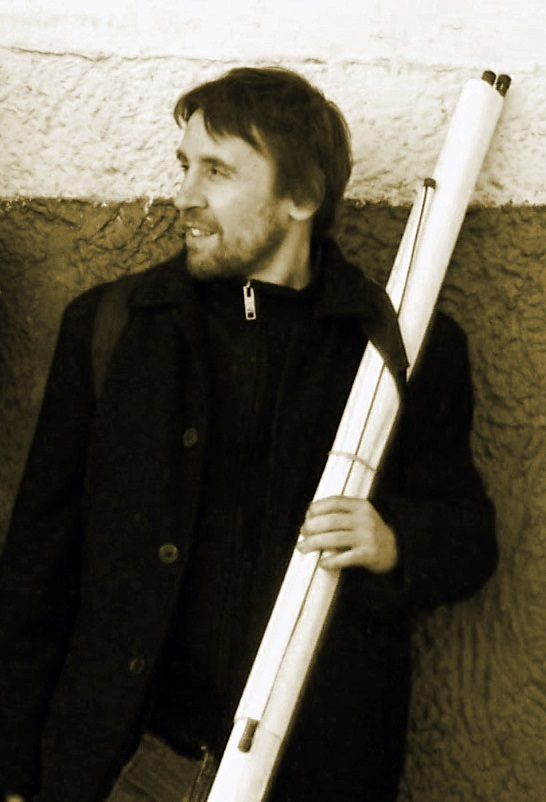 Oscar Horta in Colombia